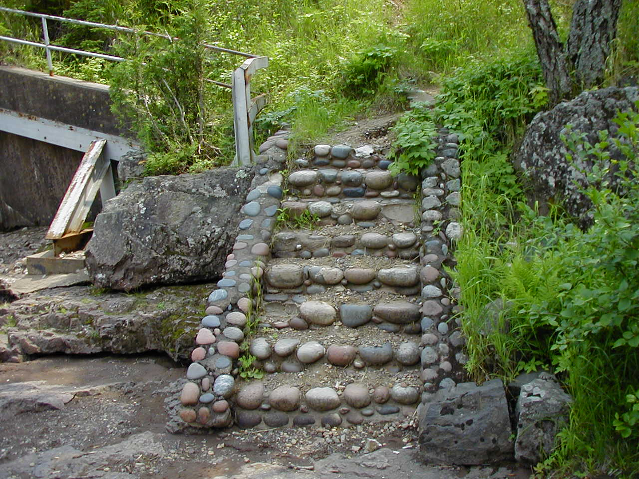 Original stone staircase created by the Civilian Conservation Corps in Temperance River State Park. Taken by Pete Nelson